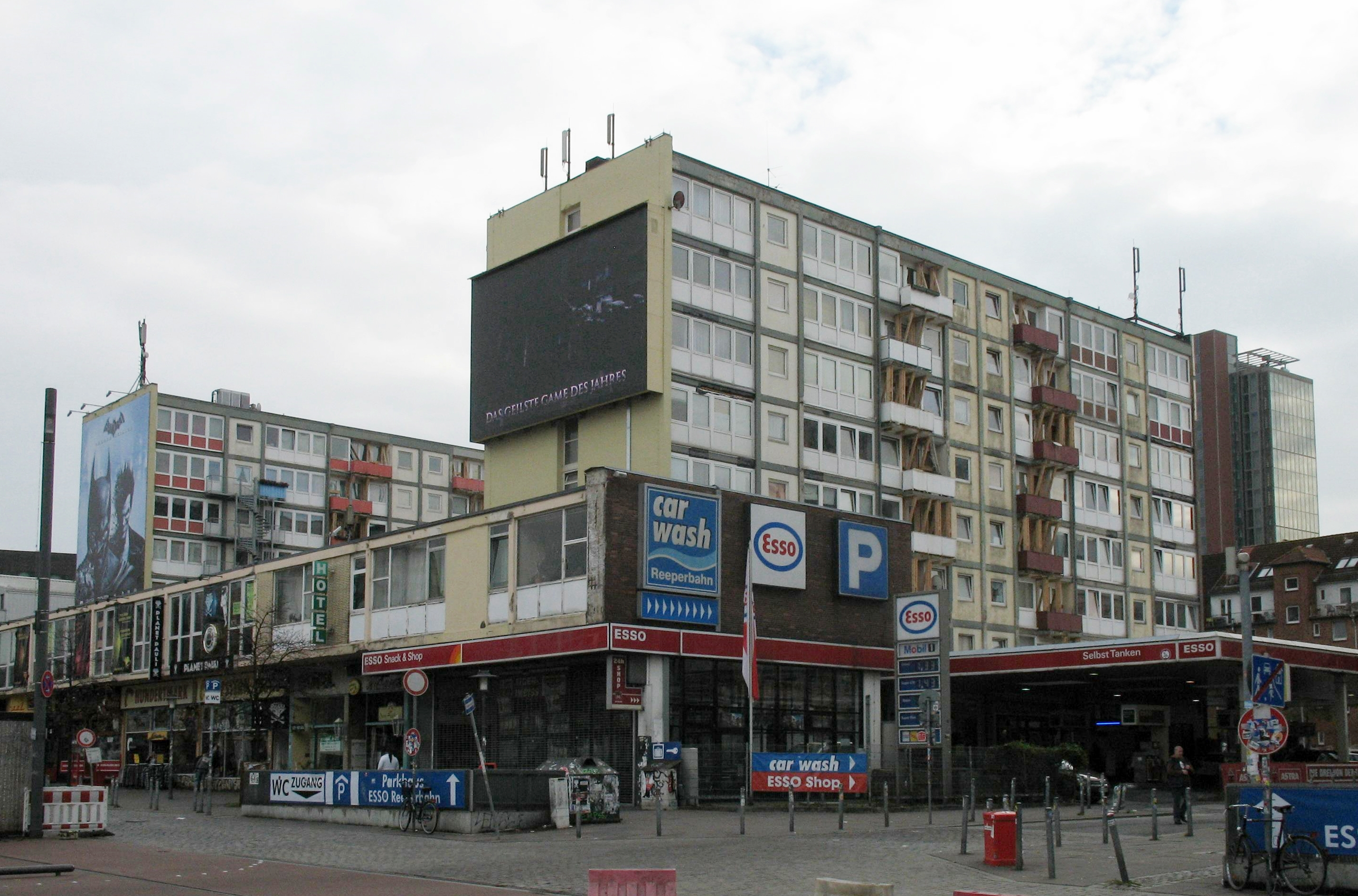 Esso buildings in Hamburg-St. Pauli, Germany